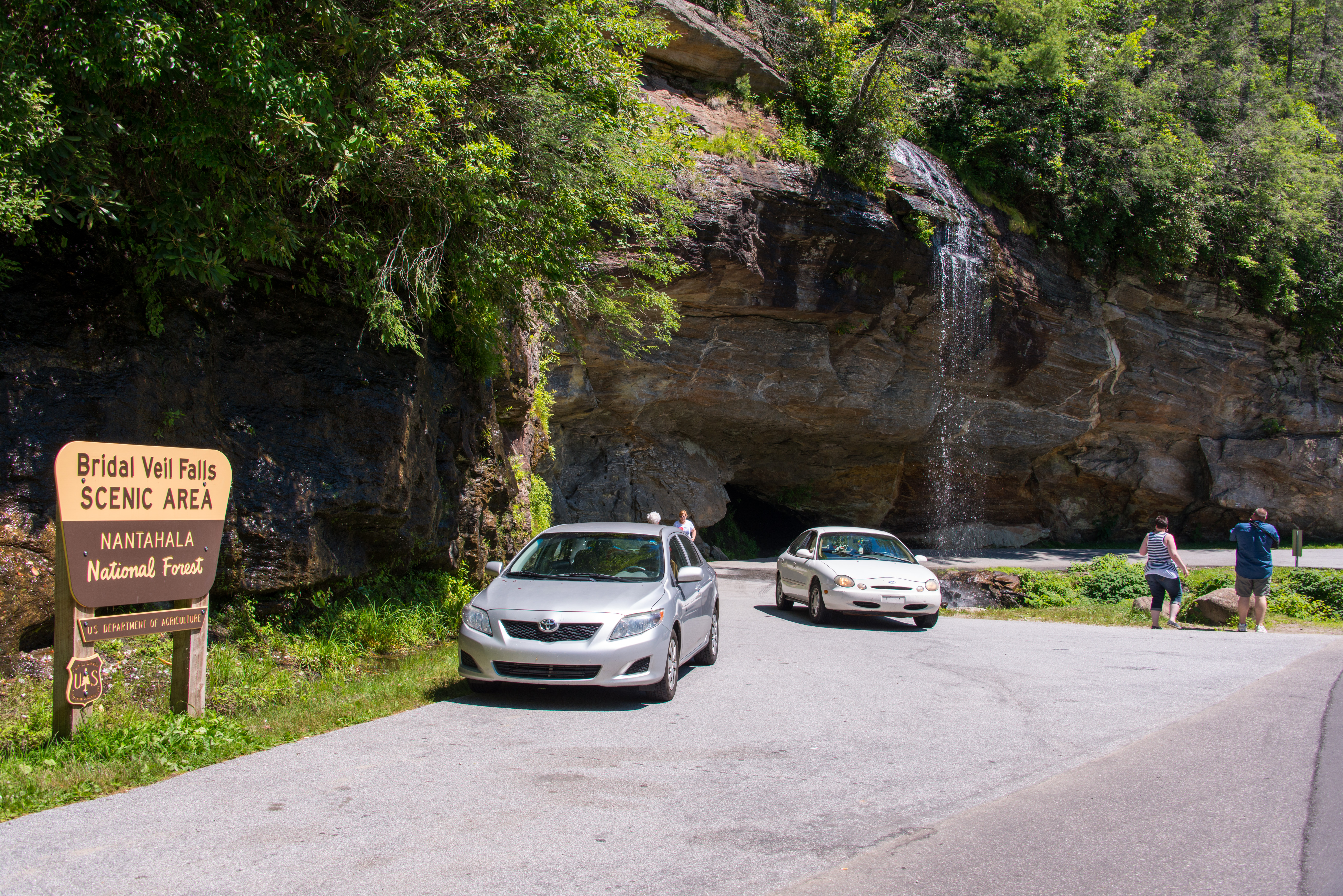 Bridal Veil Falls is located along US 64, west of the Highlands, in the Nantahala National Forest.